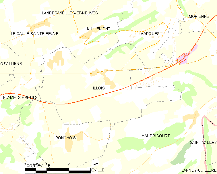 Map of French municipality Illois